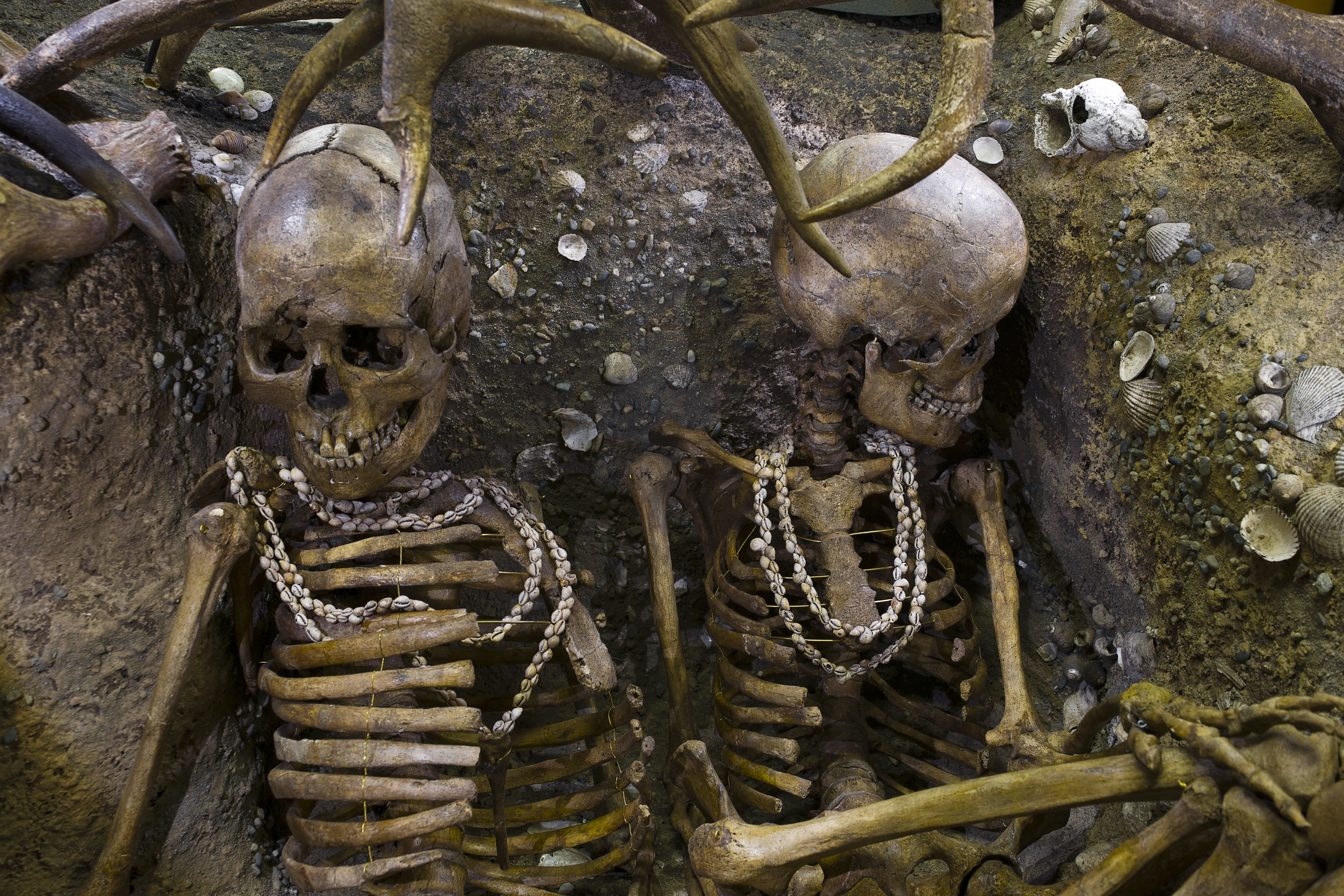 Tomb of Téviec. Two skeletons of a woman between 25 and 35 years, died a violent death, with several head injuries and impacts of arrows. The two bodies were buried with great care in a pit in the half basement and half in the kitchen debris that covered them. All protected by antler. The grave goods include flint and bone (mainly wild boar) offerings? and funeral jewelry which is made of marine shells drilled and assembled into necklaces, bracelets and ankle rings. Some of them have a few bone objects with engraved lines. Recovery in 1938 restoration 2010.